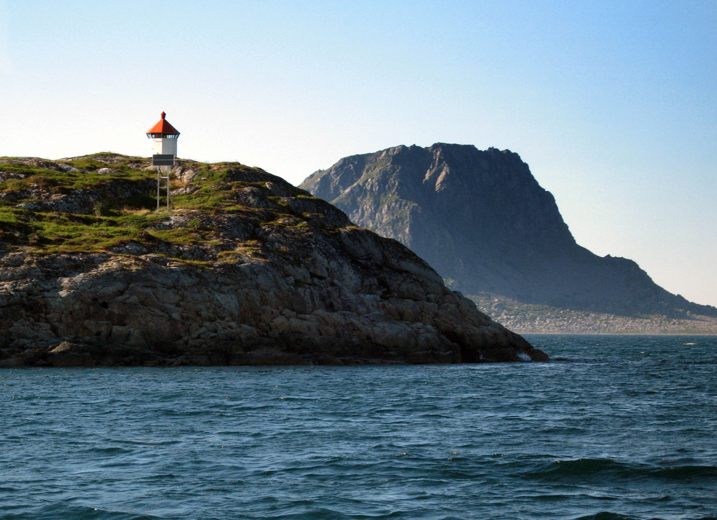 Søla Island off of Vega Norway